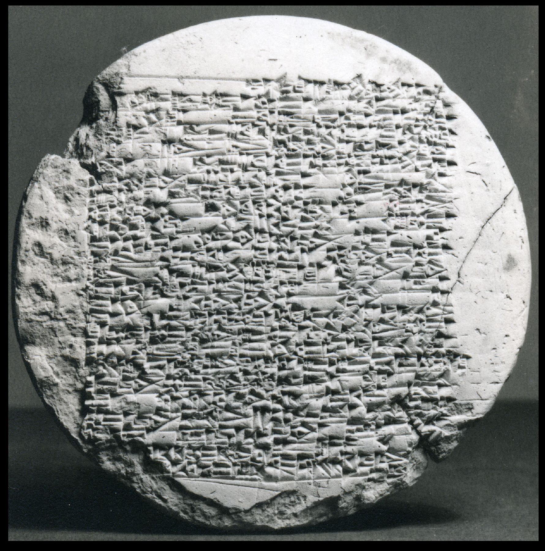 This head of a white clay cone is broken off at the base of the nail and is unglazed. The inscription features the name of Warad-sin, king of Larsa.